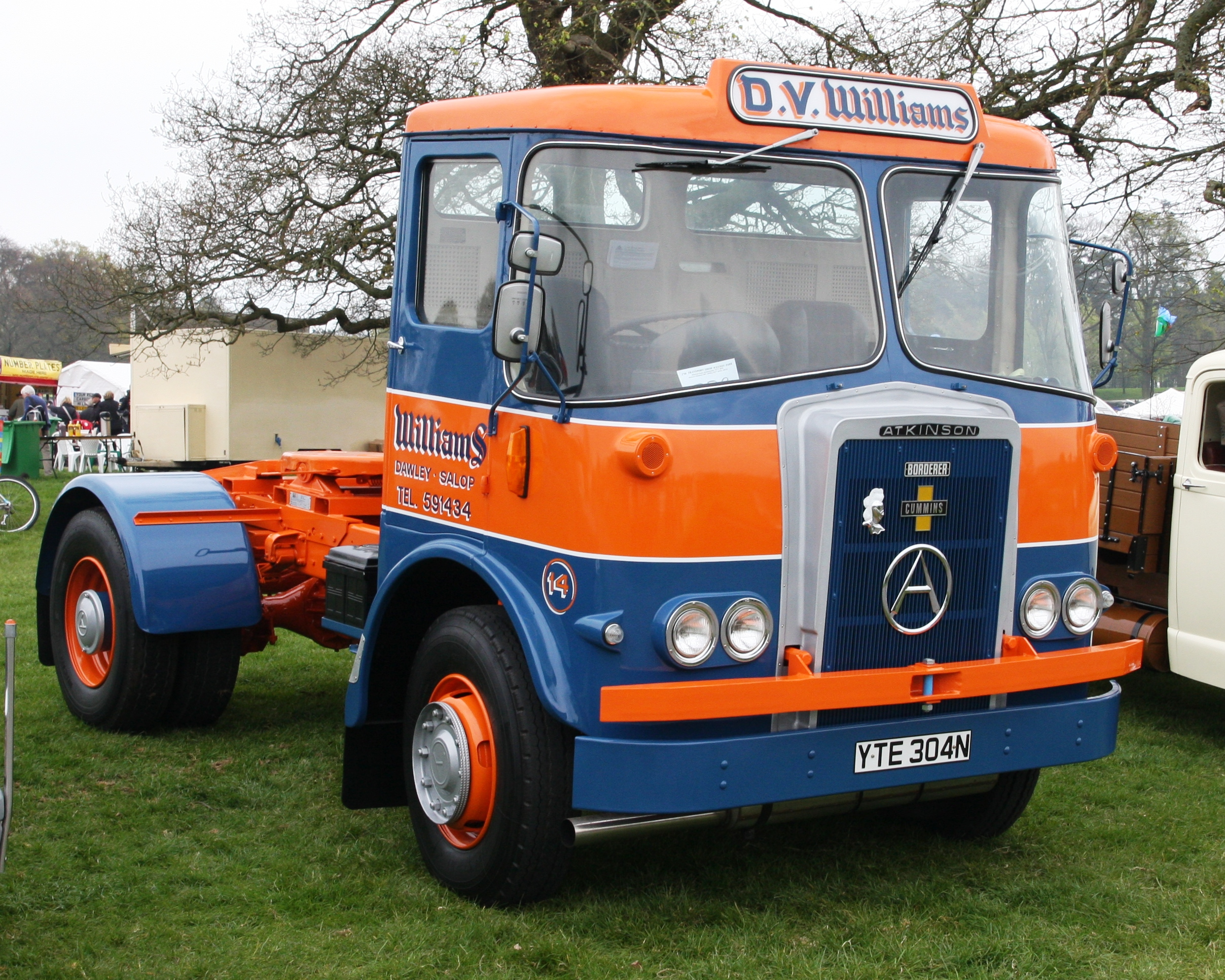 Atkinson Borderer (1974) DVLA data: First refistered UK September 1974 Year of manufacture 1974 Cylinder capacity Not available Revenue weight 15750 kg